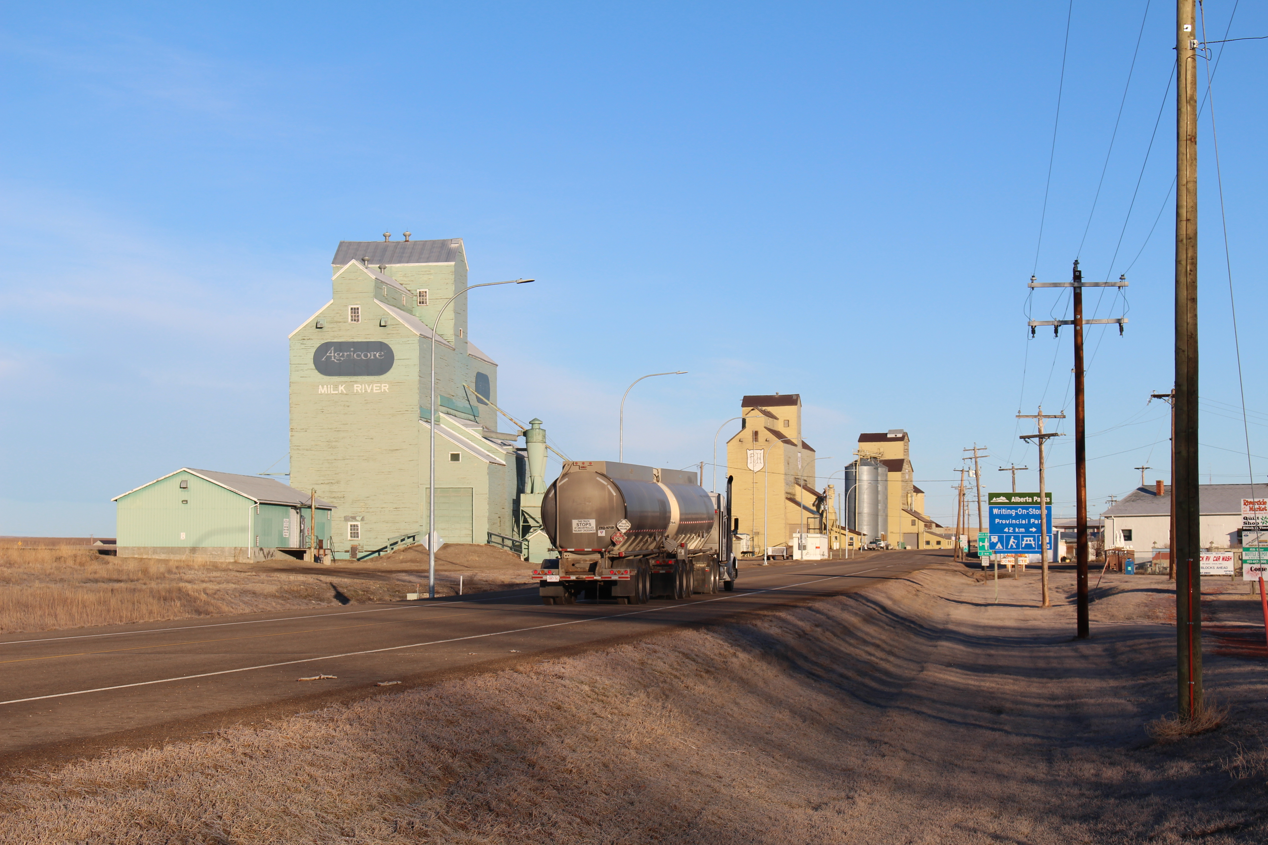 Photos of the town of Milk River, Alberta, Canada and surrounding area. Photos by Jonathan Koch / RPAP.